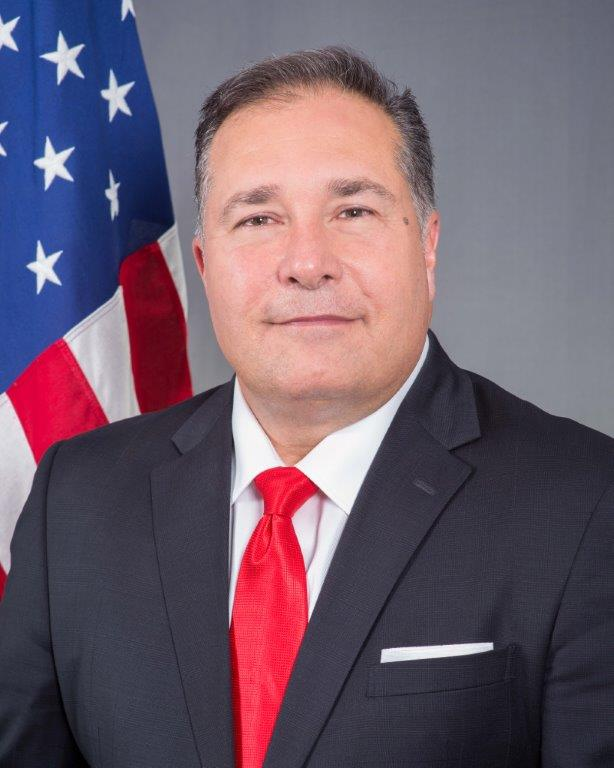 Michael T. Evanoff was sworn in as Assistant Secretary of State for Diplomatic Security on November 3, 2017.